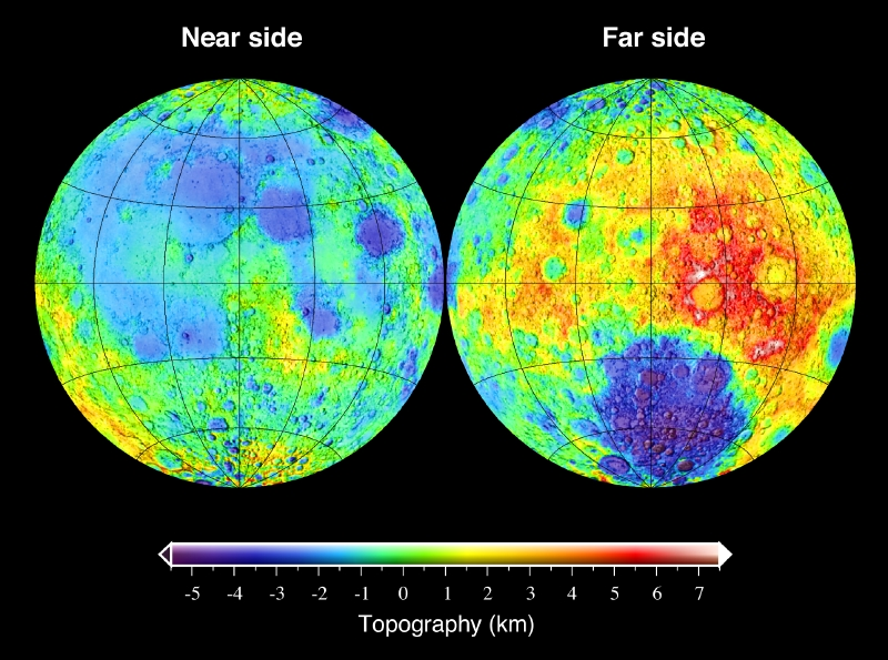 The topography of the Moon referenced to the lunar geoid. The topogographic model is derived from the spherical harmonic model USGS359 (dead link, compare and the lunar geoid was obtained from the gravity model LP150Q. The color coded topography is overlain on a shaded relief map.